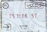 Passport stams from Słubice, Poland.